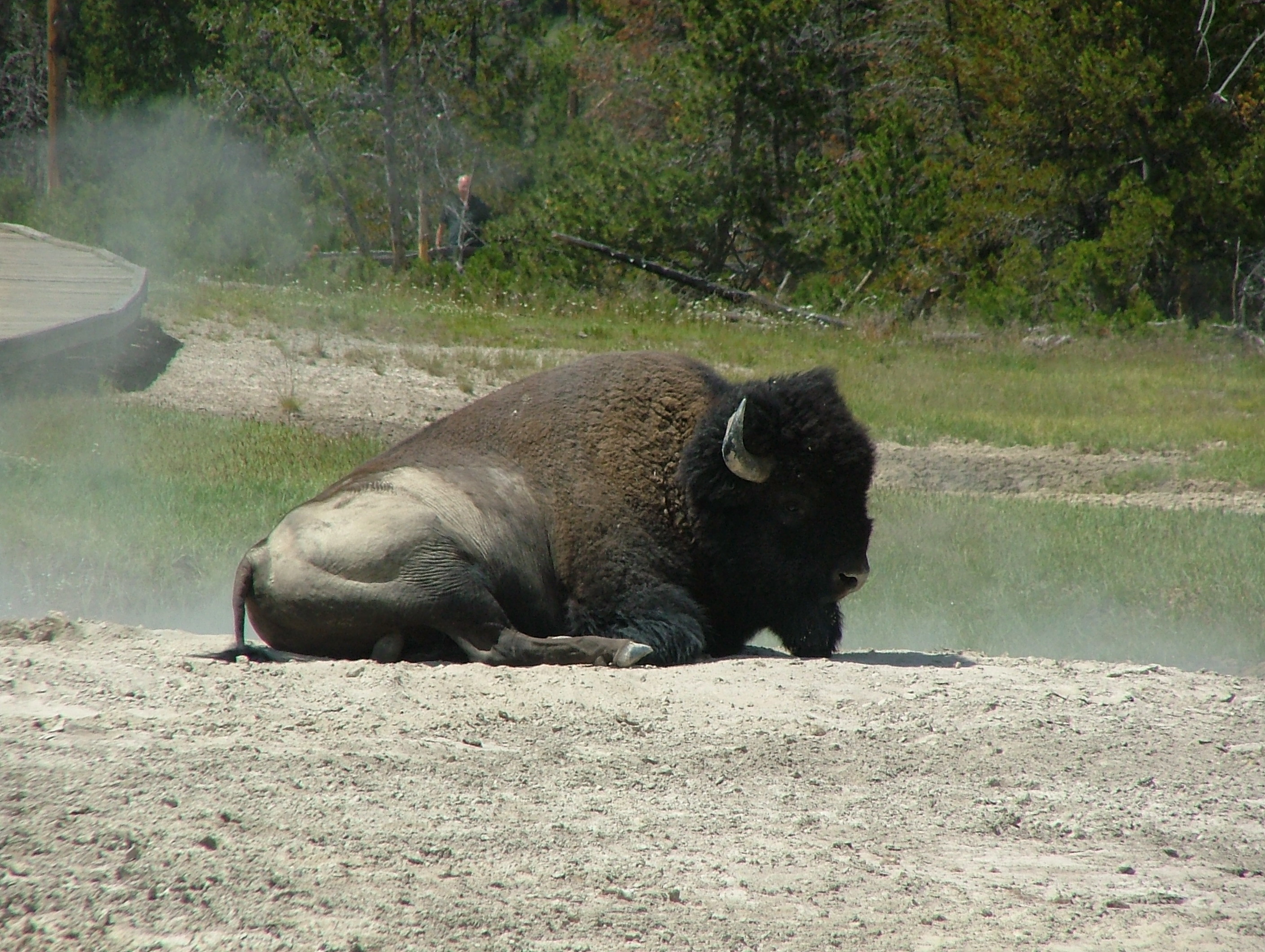 A bison bull is enjoying the sulphur fumes at Black Dragon Caldron in Yellowstone National Park.